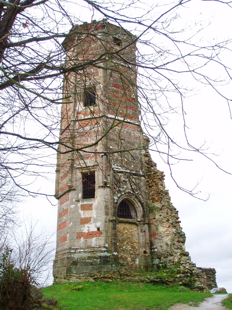 Montfort-l'Amaury: The ruins of the Château de Montfort